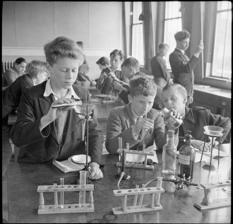 Country School- Everyday Life at Baldock County Council School, Baldock, Hertfordshire, England, UK, 1944 Boys use test tubes and Bunsen burners to carry out experiments in the science laboratory at Baldock County Council School.